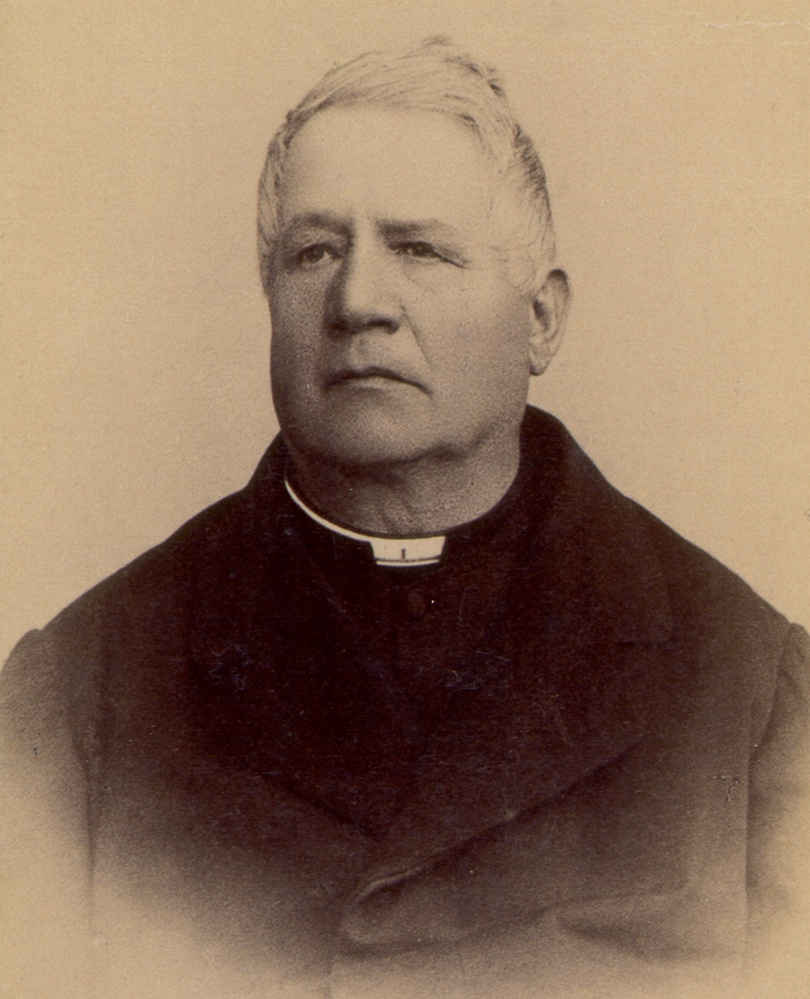 Davorin Trstenjak (1817-1890), slovene poet, historian and priest.